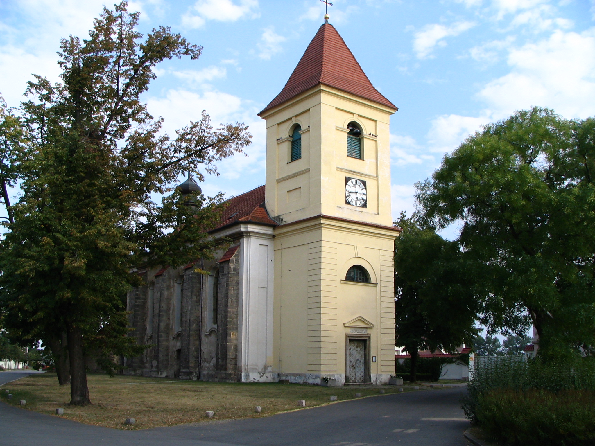 Saint Giles church in Lužec nad Vltavou, Mělník District, Czech Republic